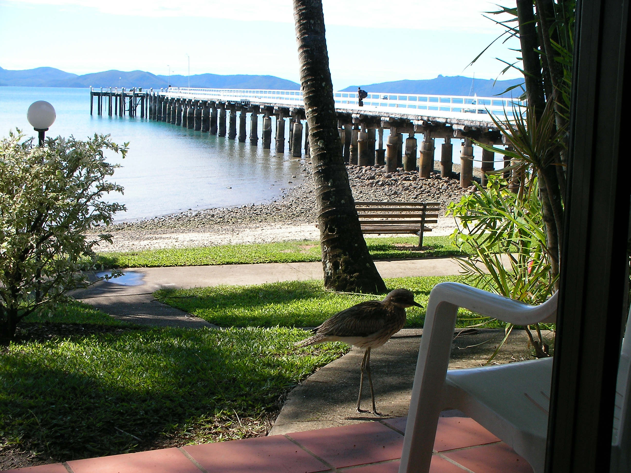 The longer jetty in Bauer Bay, South Molle Island, Queensland, Australia, as seen from accommodation at the island resort